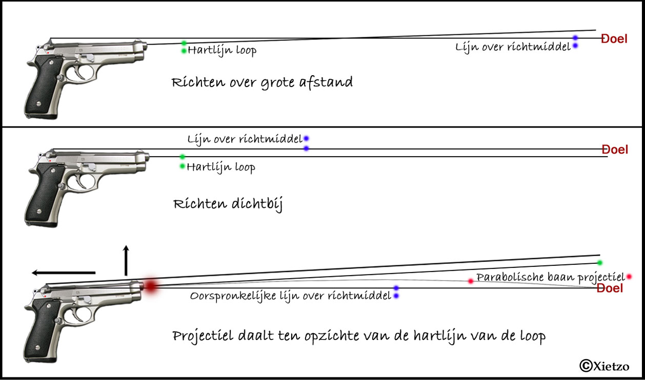 Image for the article kogelval.